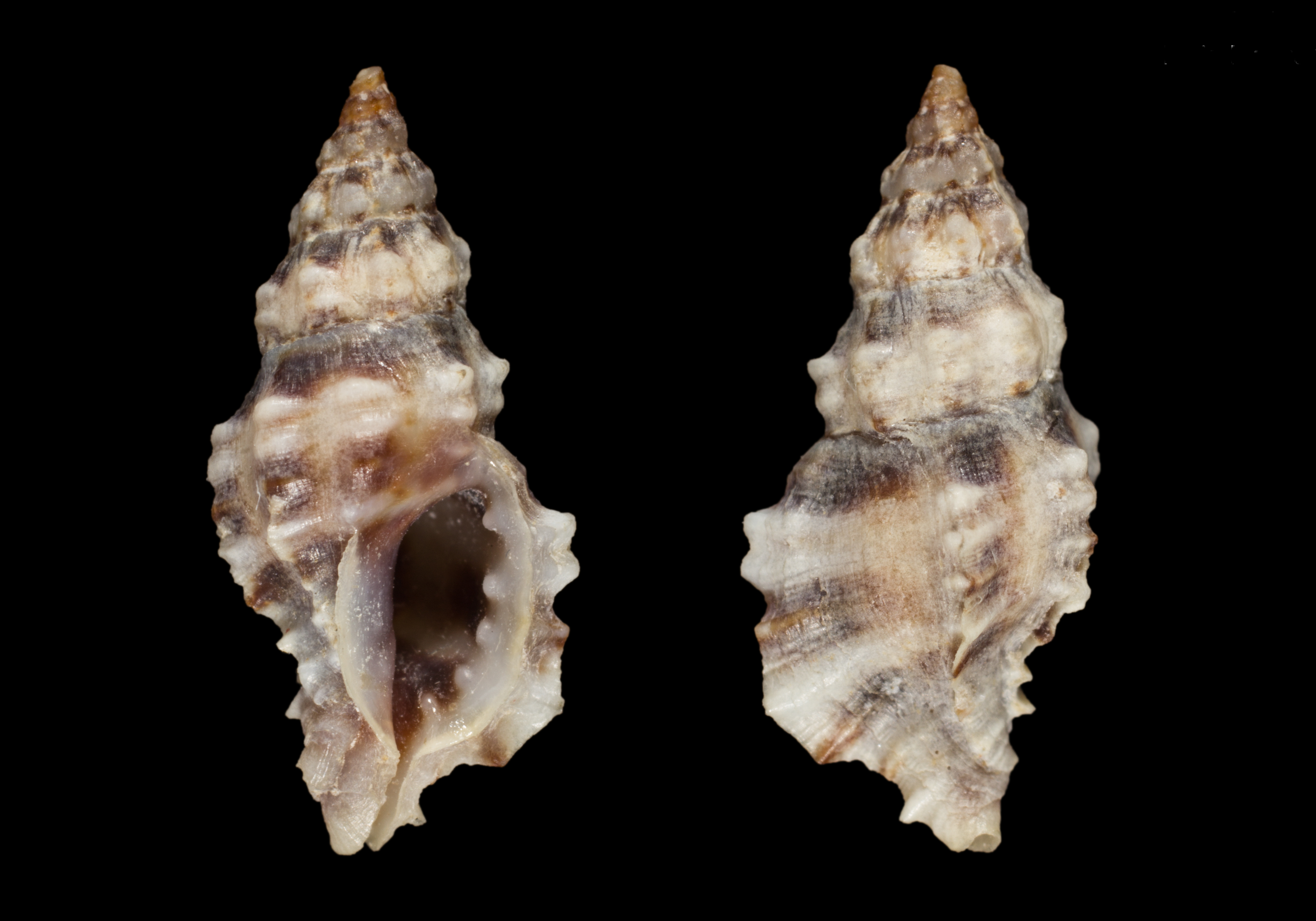 Muricopsis delemarrei Houart, 2005; family Muricidae; Principe Island